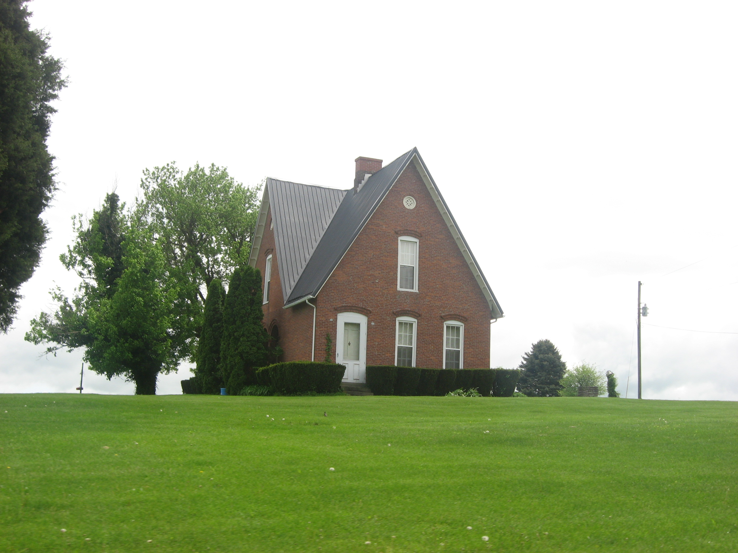 Front and eastern side of the Benjamin F. Turley House, located along Kentucky Route 35 north of Sparta in Gallatin County, Kentucky, United States. Built in 1865, it is listed on the National Register of Historic Places.